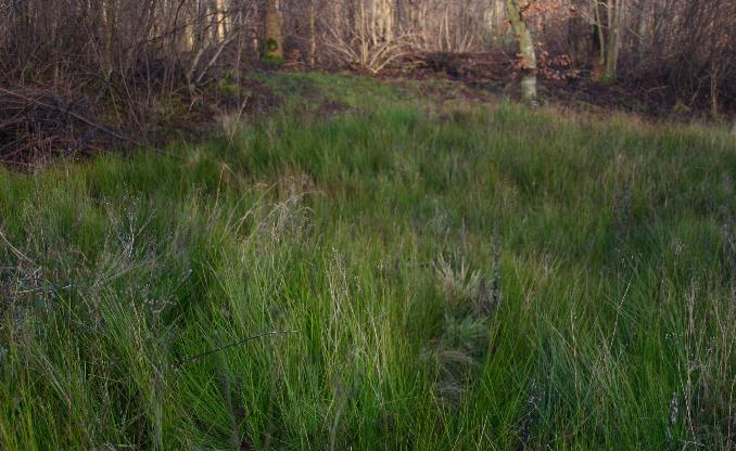 Juncus subnodulosus: Forest meadow in Eastern Jutland.